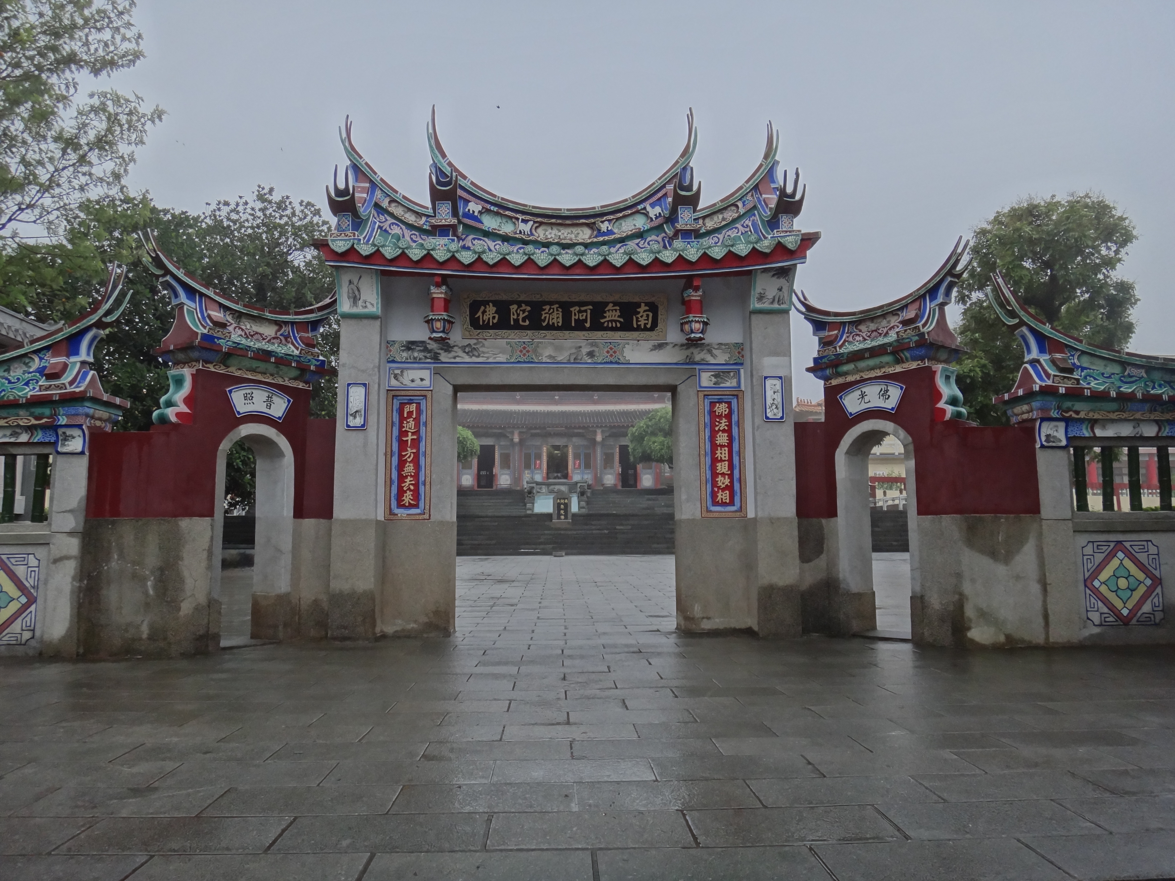 The Front gate of Daxian Temple